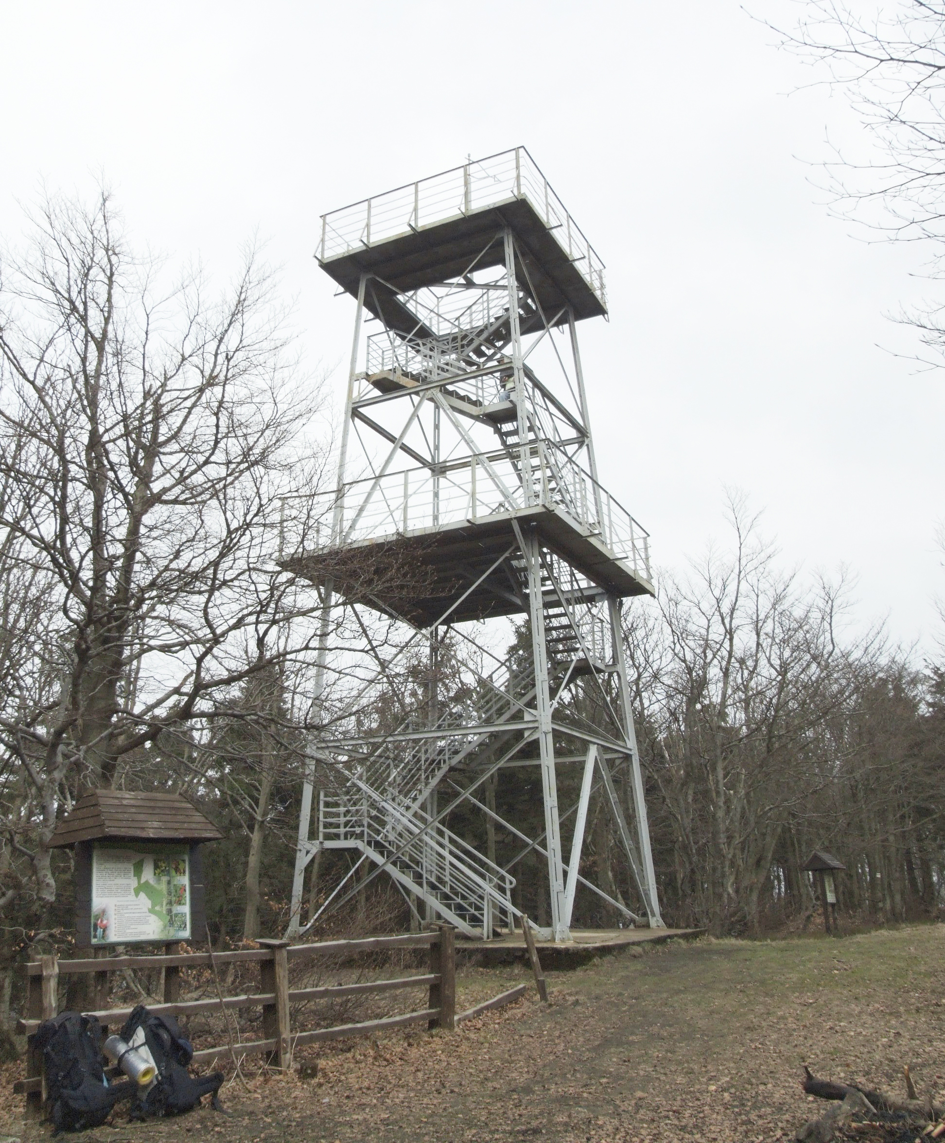 Observation tower Hindenburgturm